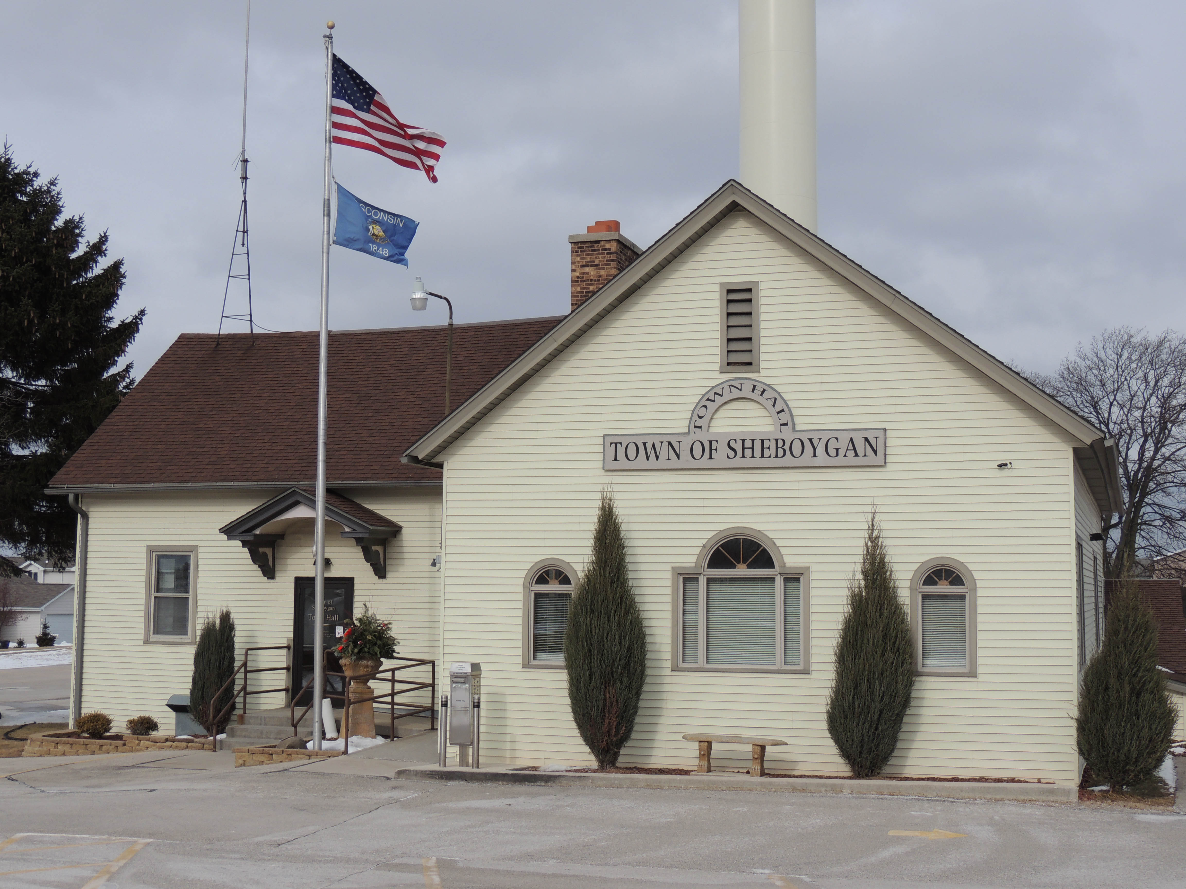 A picture taken by Asher Heimermann of the Town of Sheboygan Hall. (January 2015)